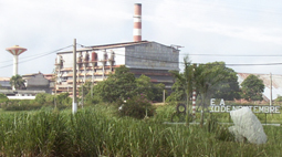 Sugar Mill "30 de Noviembre" in San Cristobal, Cuba